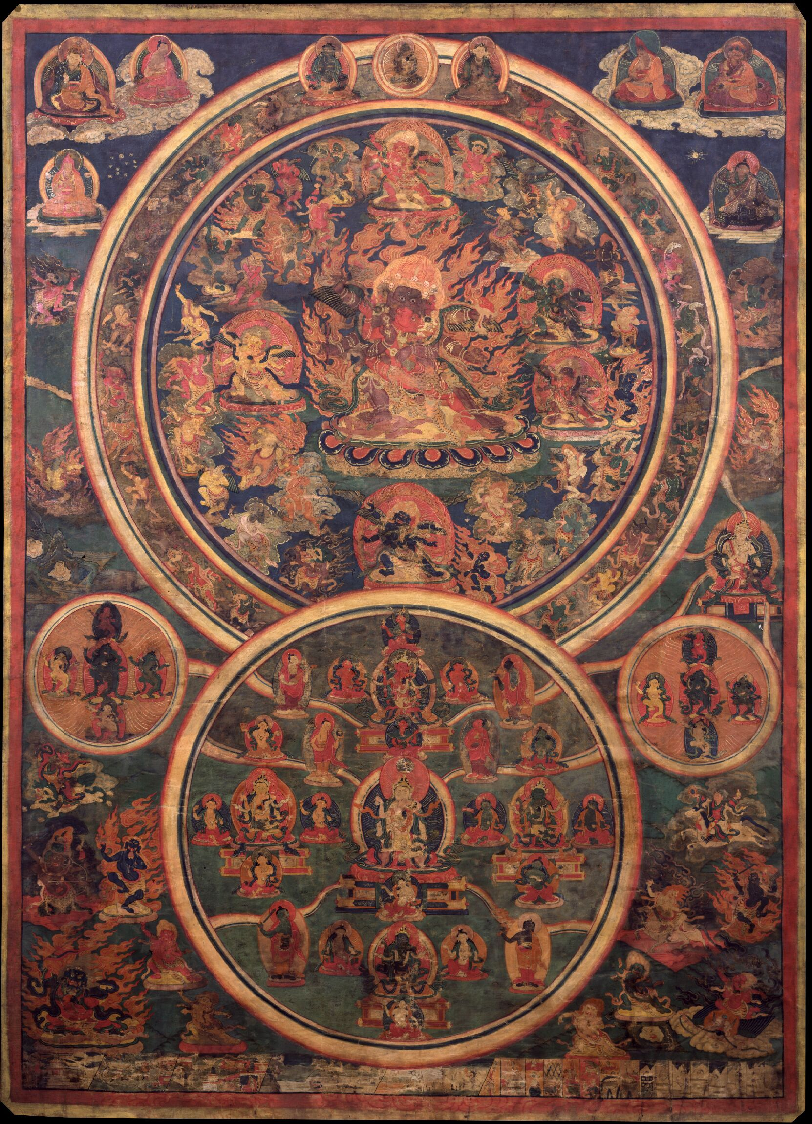 Peaceful and Wrsthful Deities.